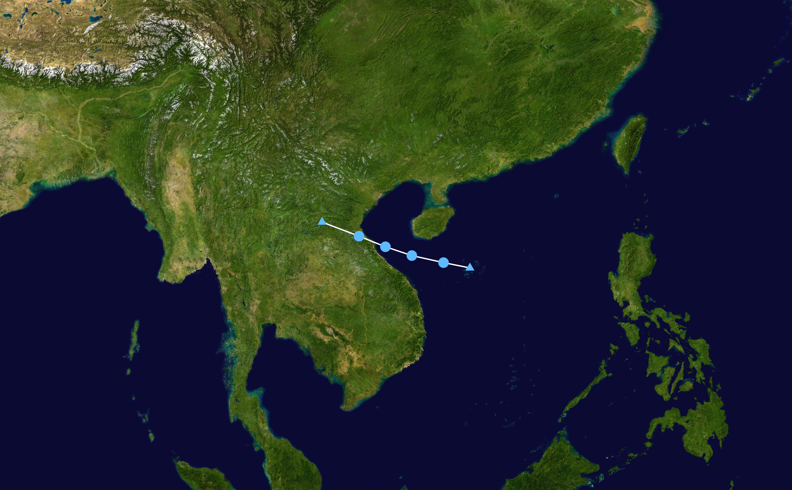 Track map of Tropical Depression 23W of the 2017 Pacific typhoon season. The points show the location of the storm at 6-hour intervals. The colour represents the storm's maximum sustained wind speeds as classified in the Saffir–Simpson scale (see below), and the shape of the data points represent the nature of the storm, according to the legend below. Saffir–Simpson scale Tropical depression≤38 mph≤62 km/h Category 3111–129 mph178–208 km/h Tropical storm39–73 mph63–118 km/h Category 4130–156 mph209–251 km/h Category 174–95 mph119–153 km/h Category 5≥157 mph≥252 km/h Category 296–110 mph154–177 km/h Unknown Storm type Tropical cyclone Subtropical cyclone Extratropical cyclone / Remnant low / Tropical disturbance / Monsoon depression